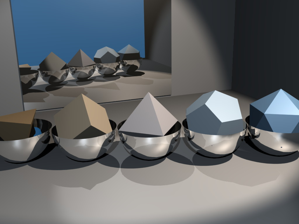 Polyhedra at equal scale. Image made with Blender and YafRay.